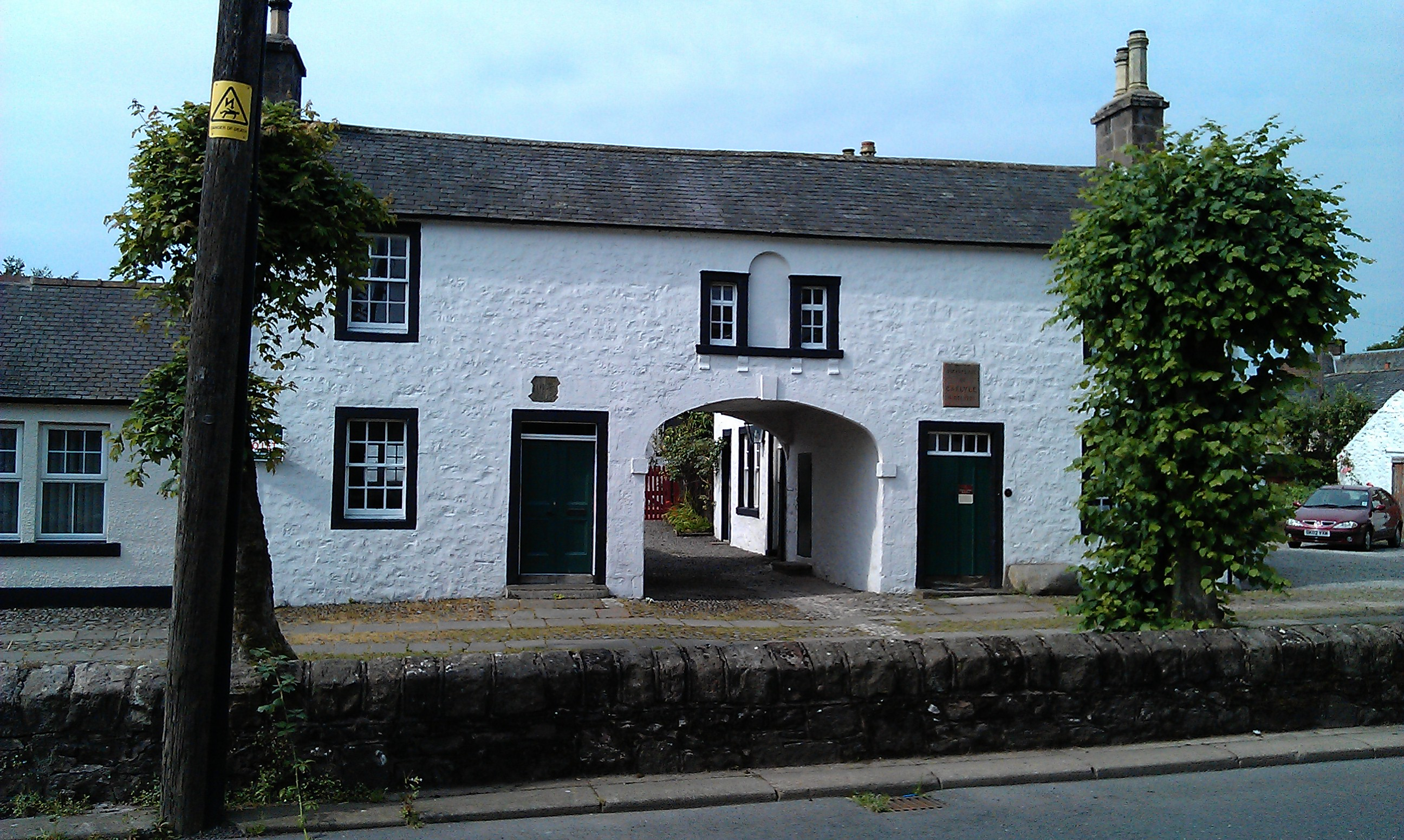 Ecclefechan, High Street, Arched House Wikidata has entry Q17571380 with data related to this item.